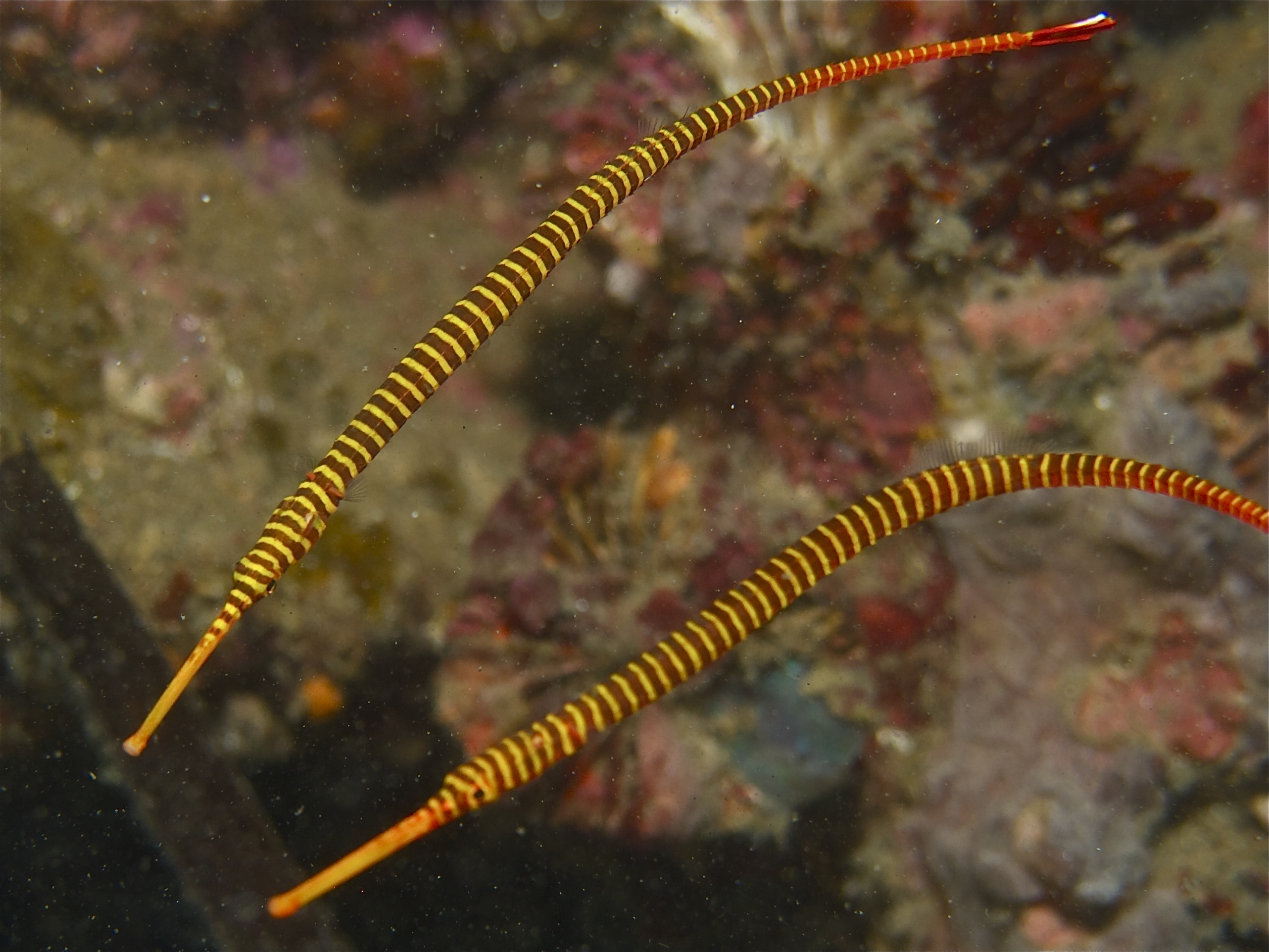 Couple of Dunckerocampus pessuliferus (named Doryrhamphus dactyliophorus) in Sorong, Indonesia.